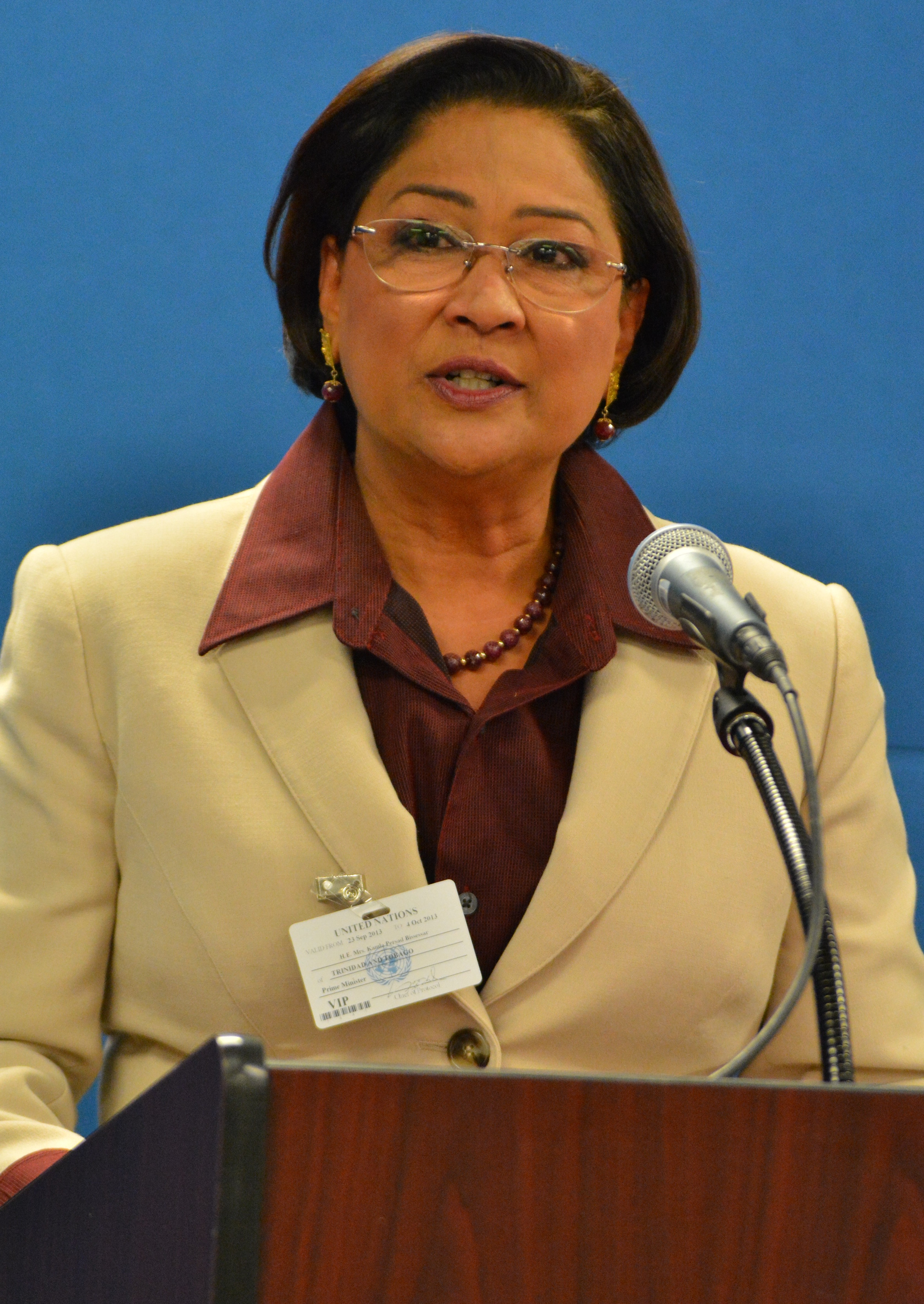 Prime Minister of Trinidad and Tobago, Kamla Persad-Bissesar